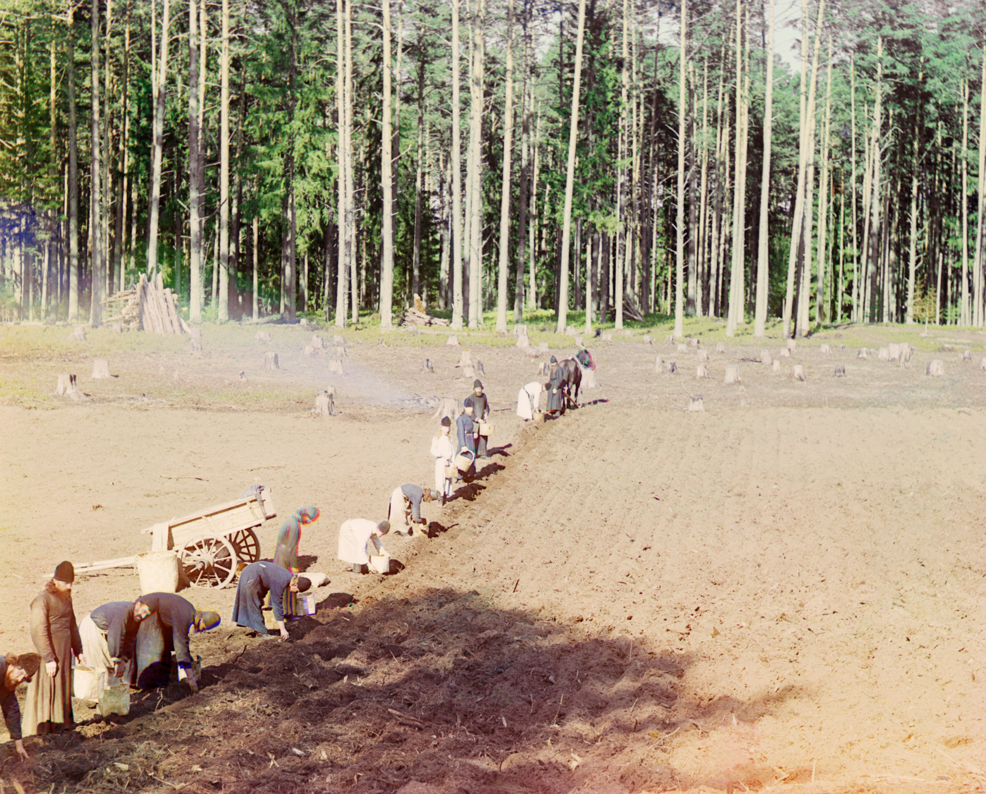 Original Description: Monks at work. Planting potatoes. [Gethsemane Monastery]. Monks wearing traditional habits, planting potatoes in fields reclaimed from the dense conifer forest at the Gethsemane Hermitage on Lake Seliger near the headwaters of the Volga River.